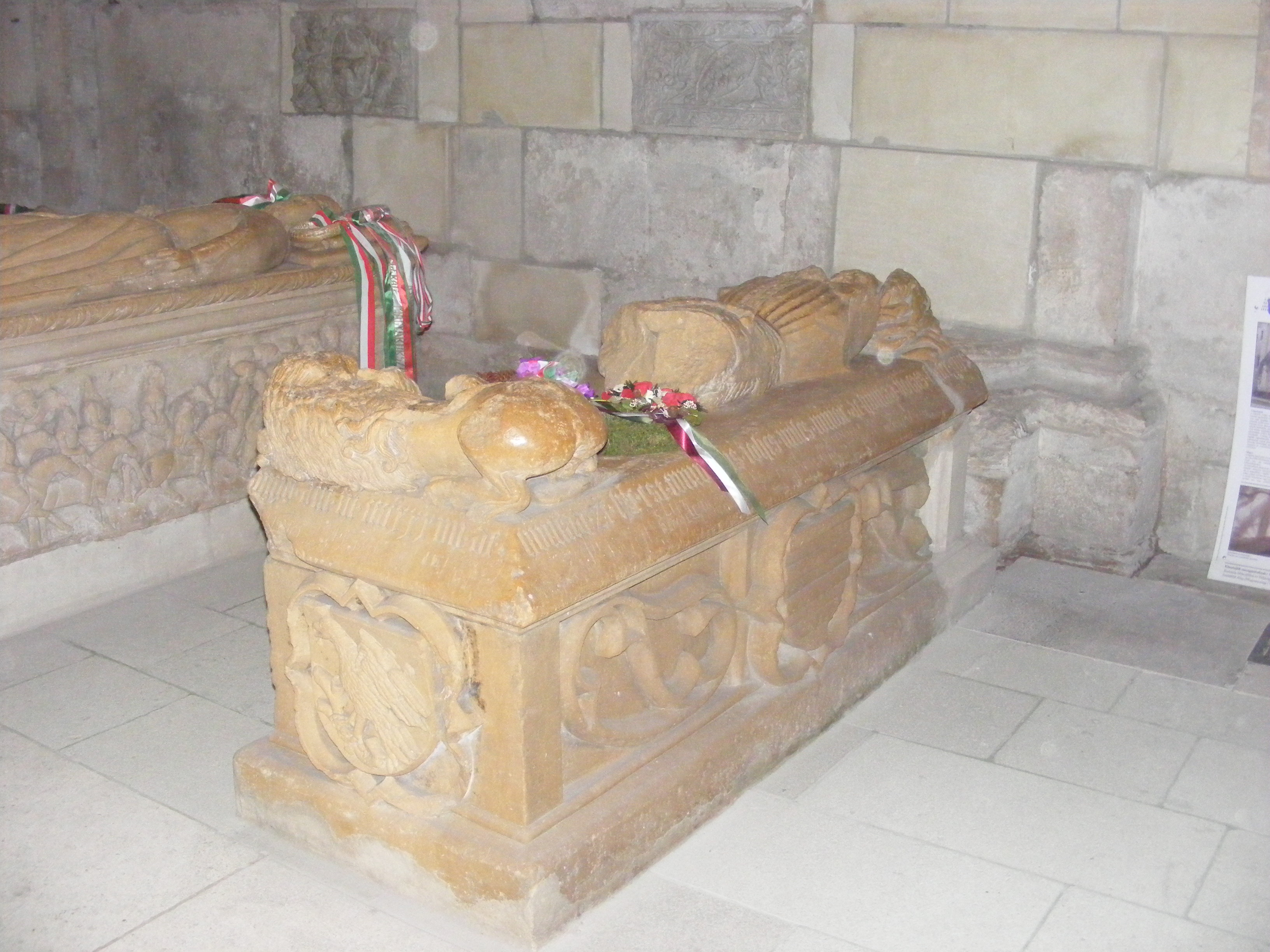 The younger Hunyadi János's grave in Gyulafehérvár (Alba Iulia, Romania)